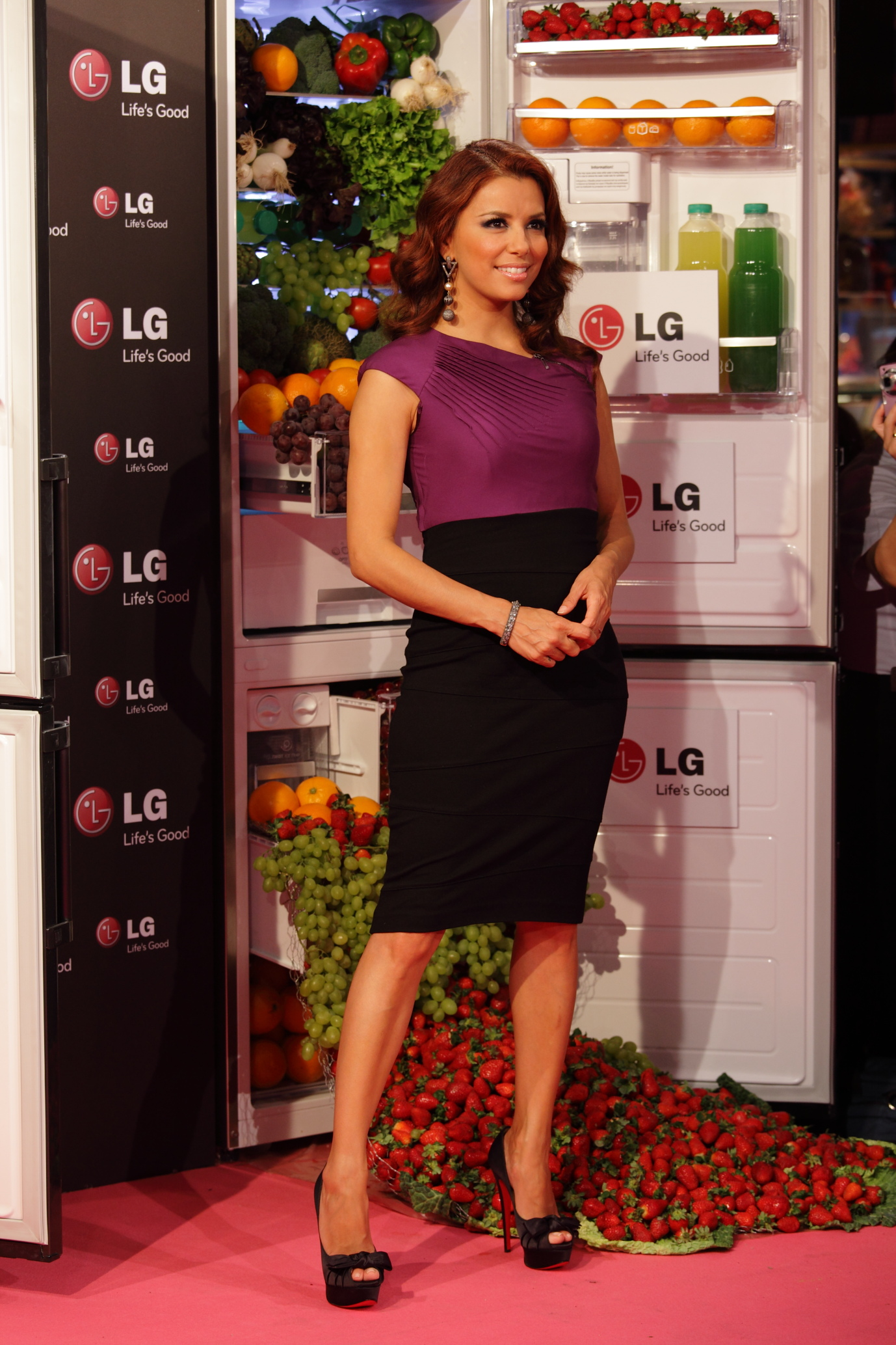 Actress Eva Longoria Parker